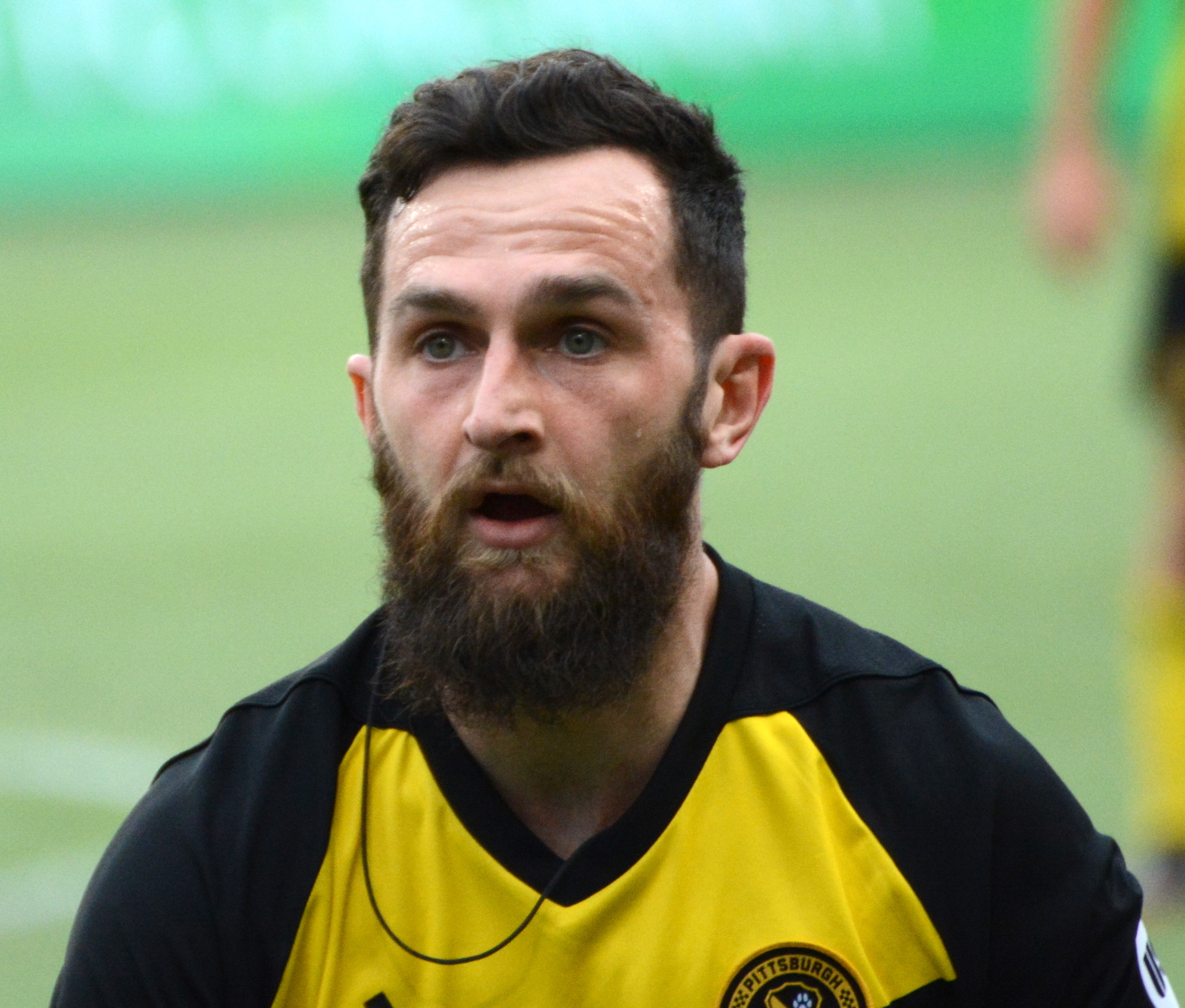 A portrait of Scottish footballer Kevin Kerr, a midfielder for Pittsburgh Riverhounds SC, taken as he was looking to receive the ball near the east sideline of the pitch. Taken during a USL regular season match between FC Cincinnati and Pittsburgh Riverhounds at Nippert Stadium in Cincinnati, USA on April 21, 2018.